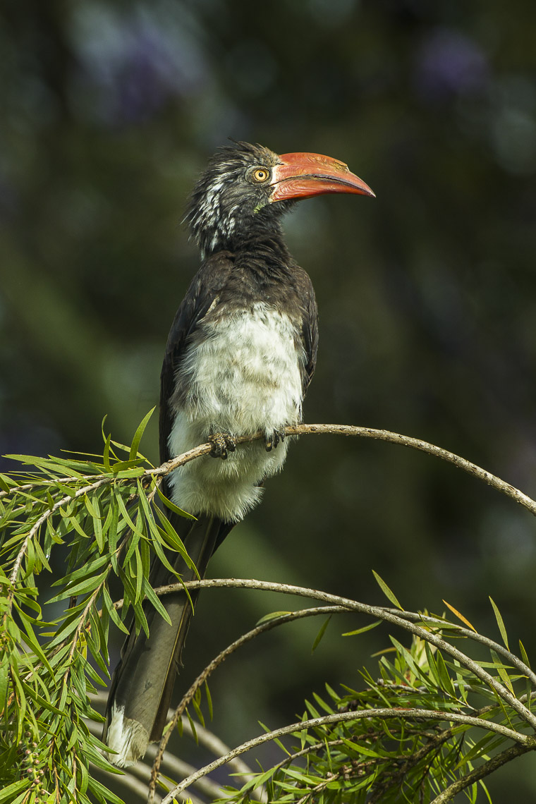 Crowned Hornbill - Kenya_S4E8074